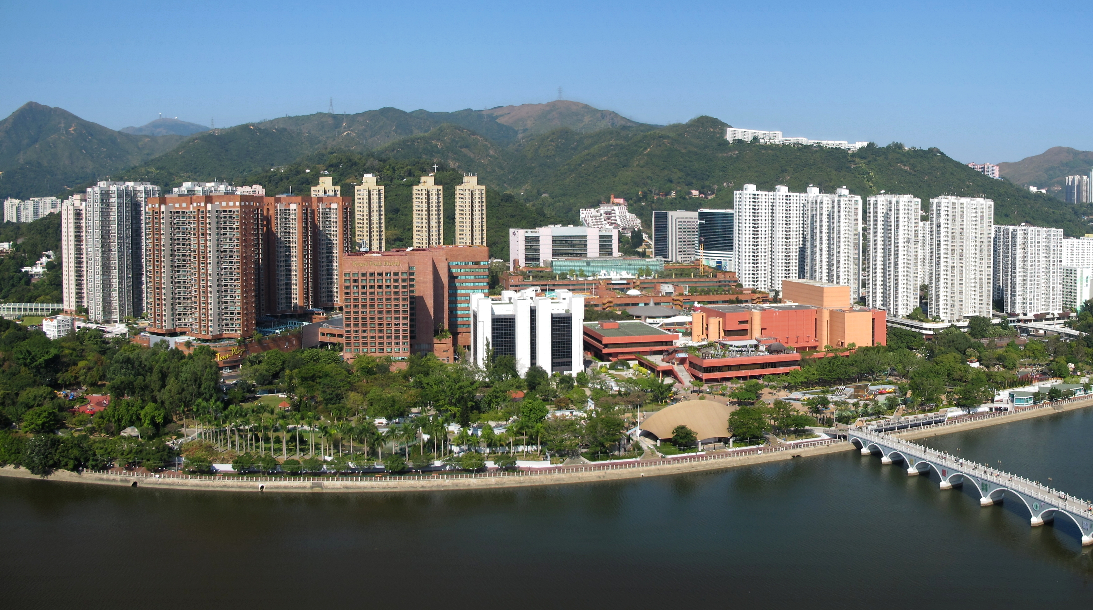 沙田市中心 Shatin Central